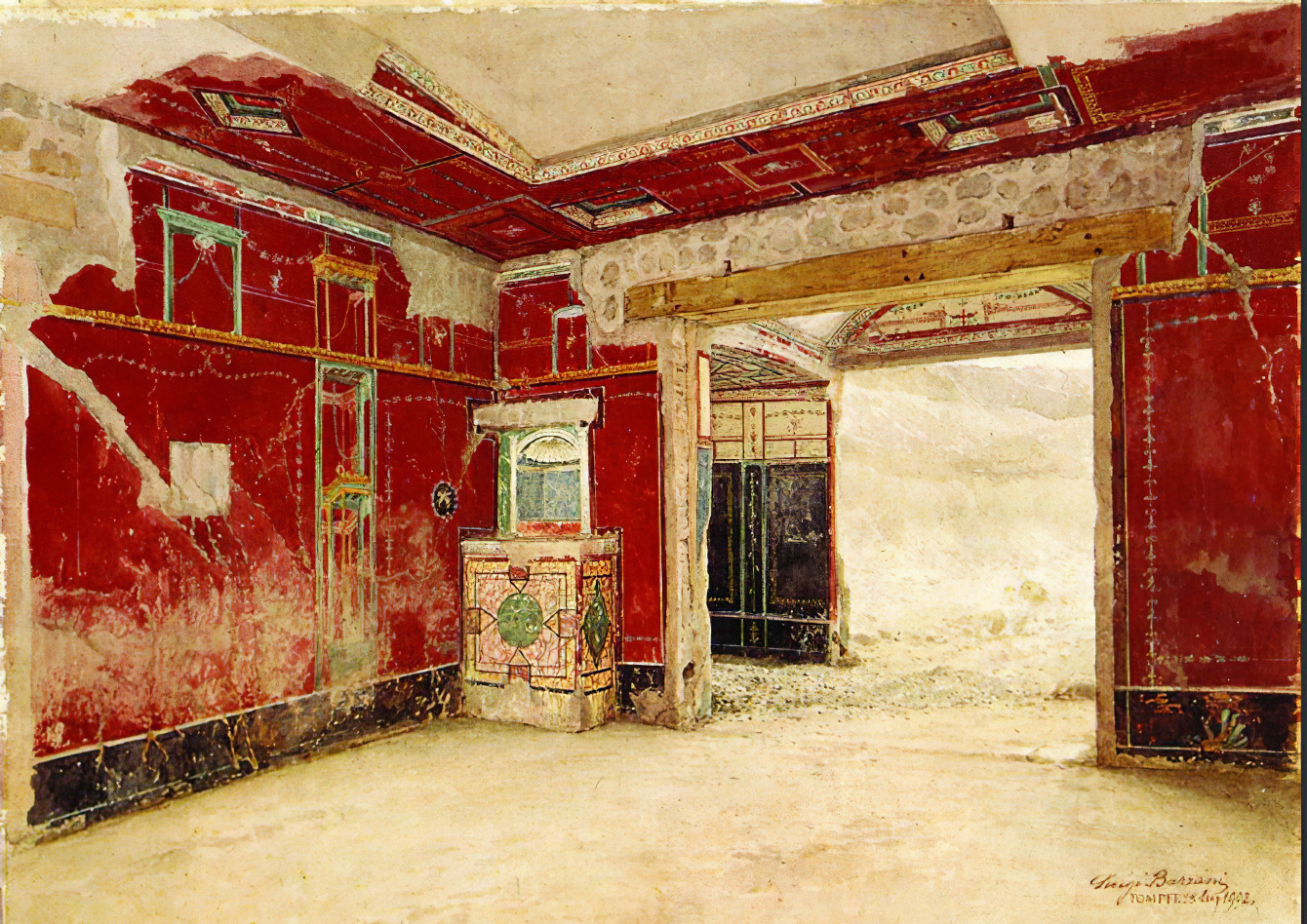 Pompeian red interior watercolor by Luigi Bazzani